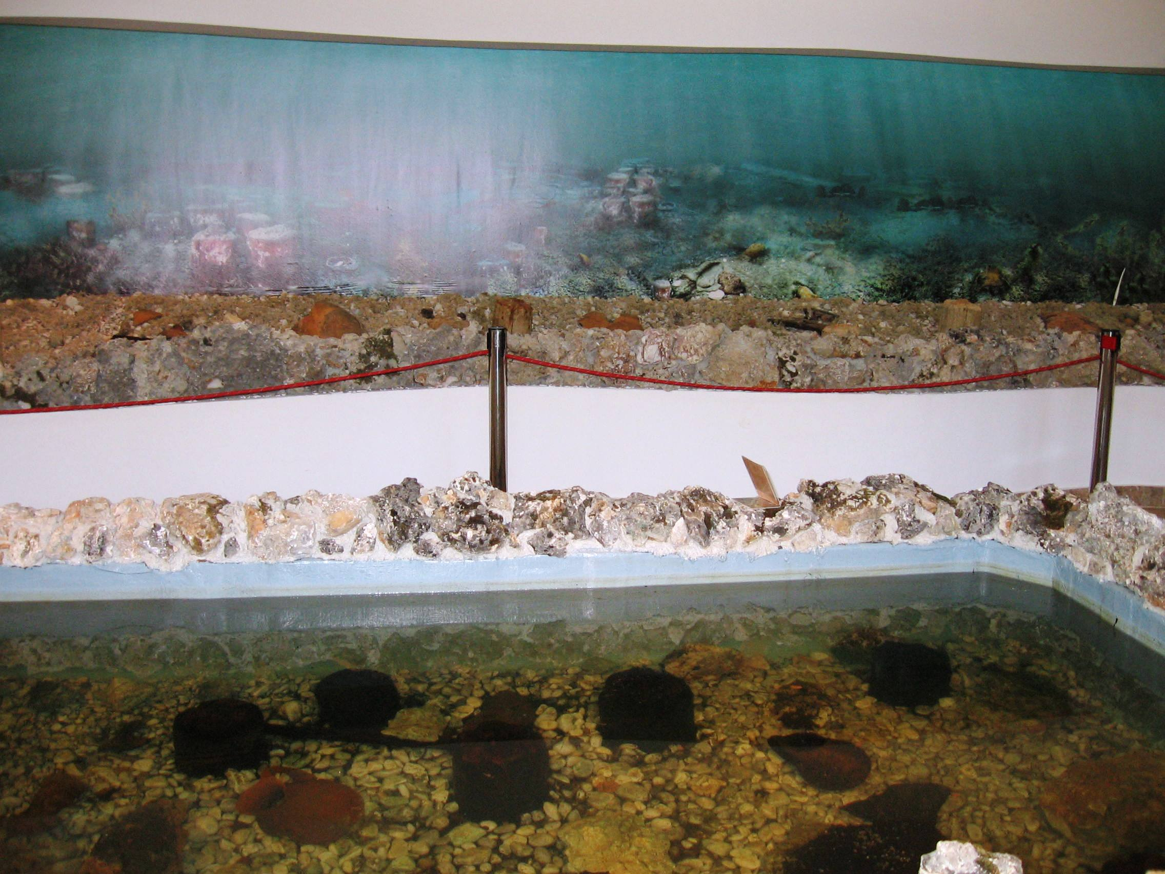 Water Museum - original columns